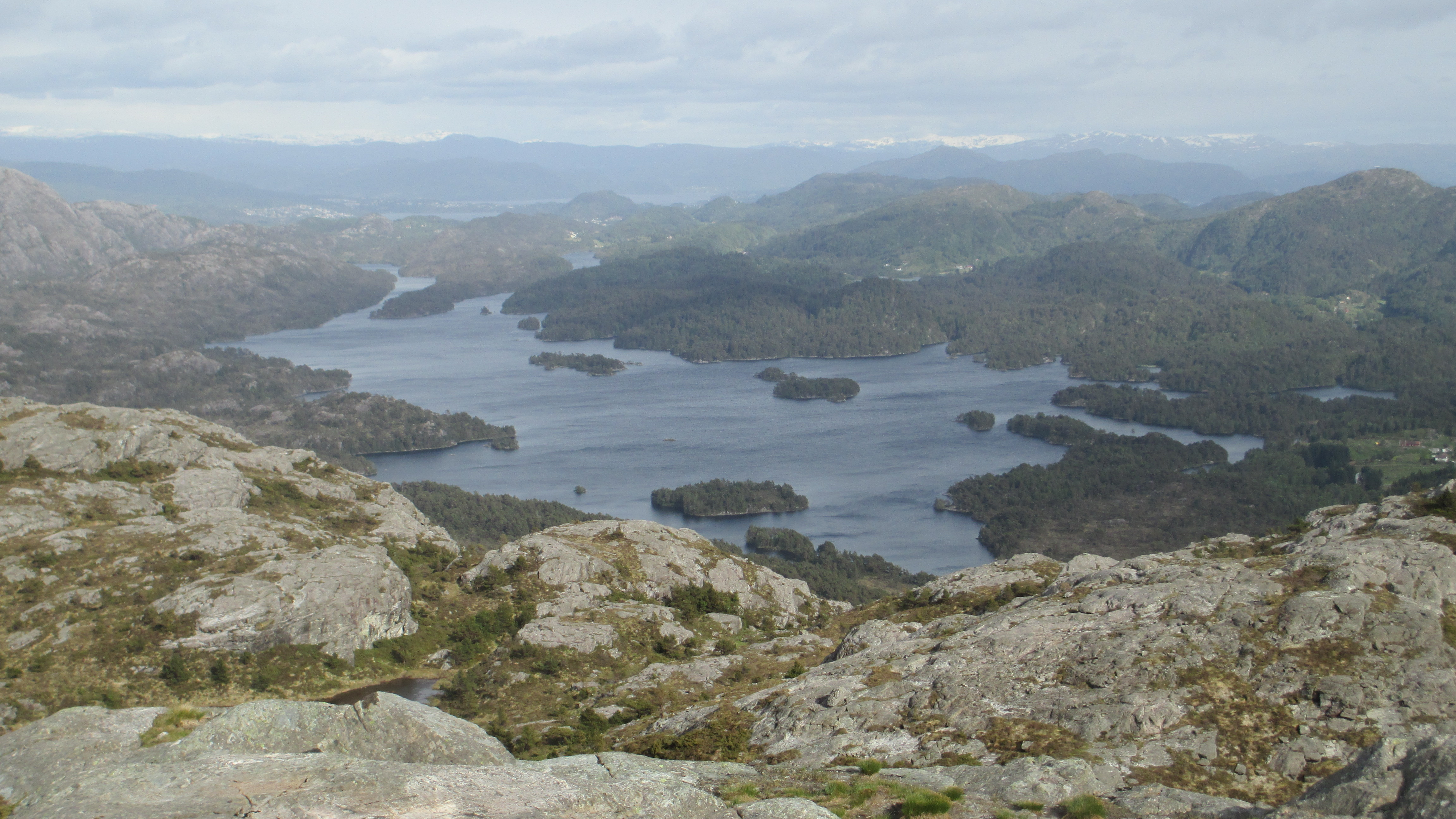 Lake Storavatnet, Meland, Hordaland, Norway